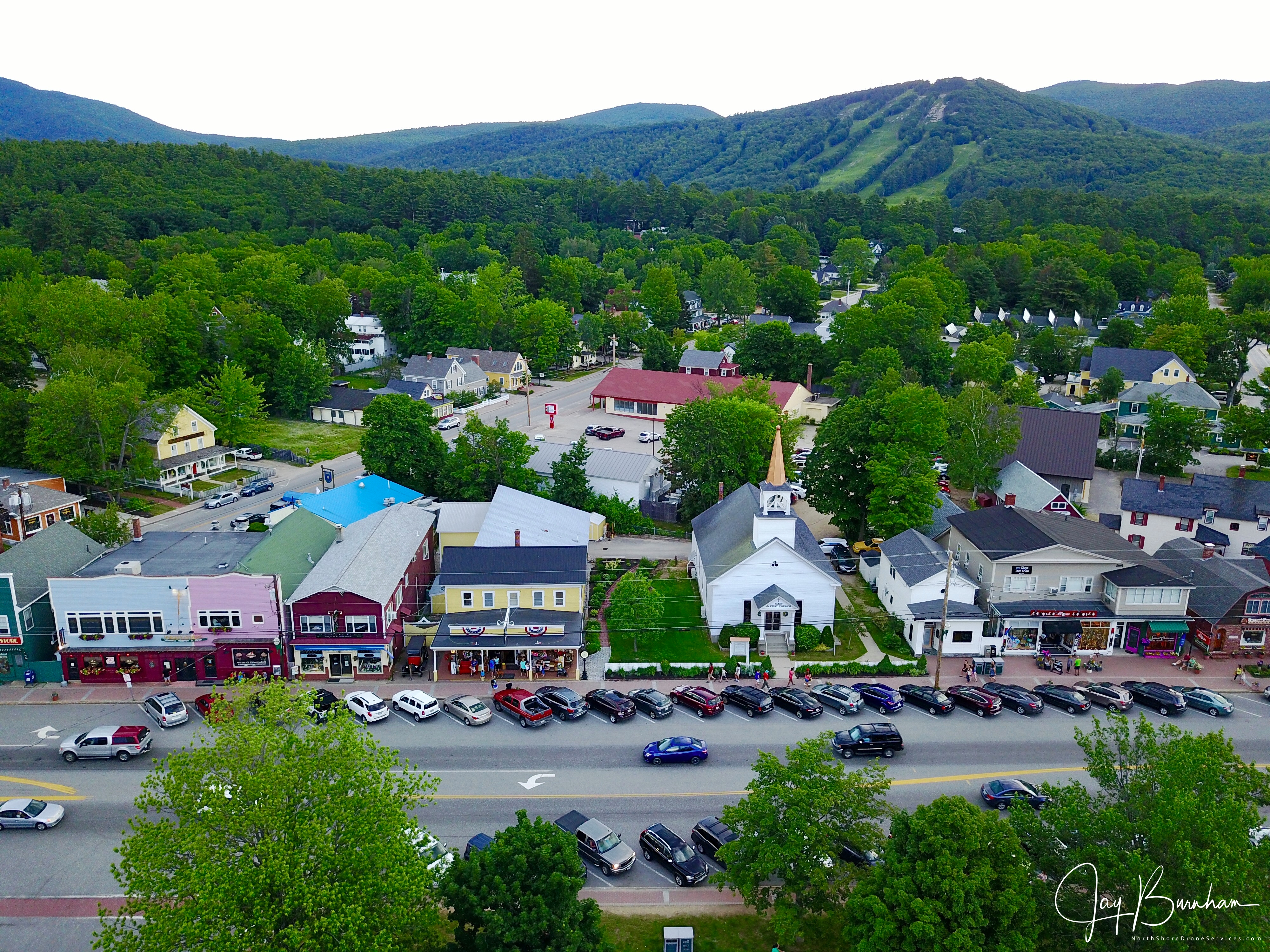 Main Street, North Conway, New Hampshire, with Mt. Cranmore in the background